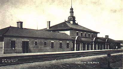 Northern Pacific Railway depot, Helena, Montana, circa 1904, by Minnesota architects Reed and Stem